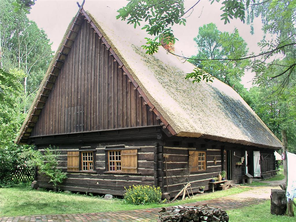 Lehde, Brandenburg, Germany: Typical house of "Spreewald", photo 2003